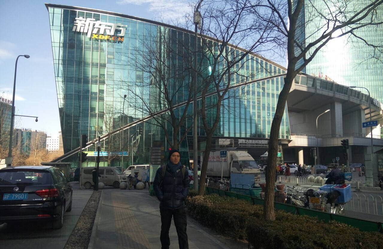 Taken outside the headquarter of New Oriental